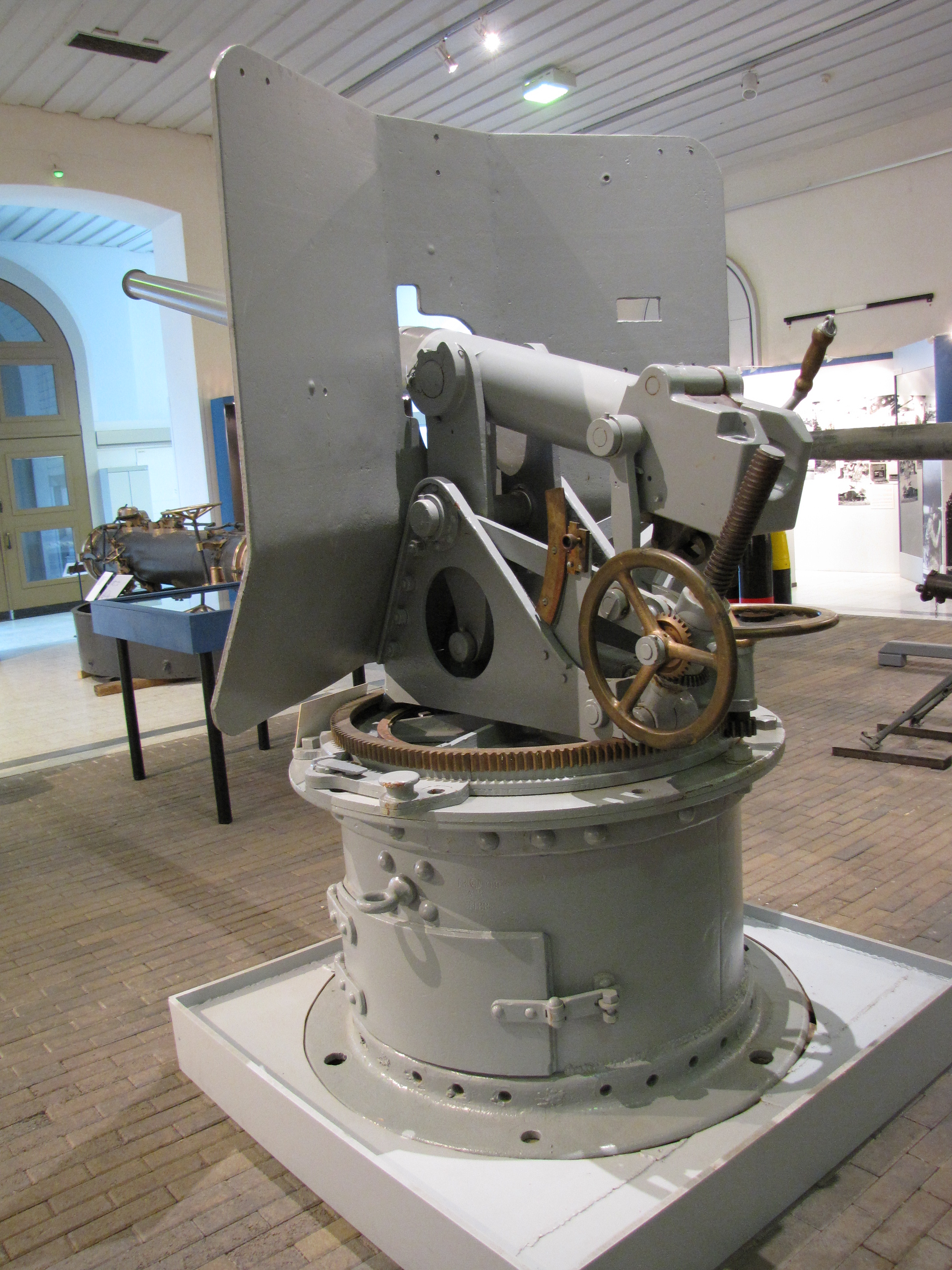 57 mm 48 caliber QF 6 pounder Nordenfelt gun in Manege Military Museum. See also : File:57 mm 48 cal Nordenfelt Maneesi 1.JPG : left side view File:57 mm 48 cal Nordenfelt Maneesi 3.JPG : breech end closeup File:57 mm 48 cal Nordenfelt Maneesi 4.JPG : left side view